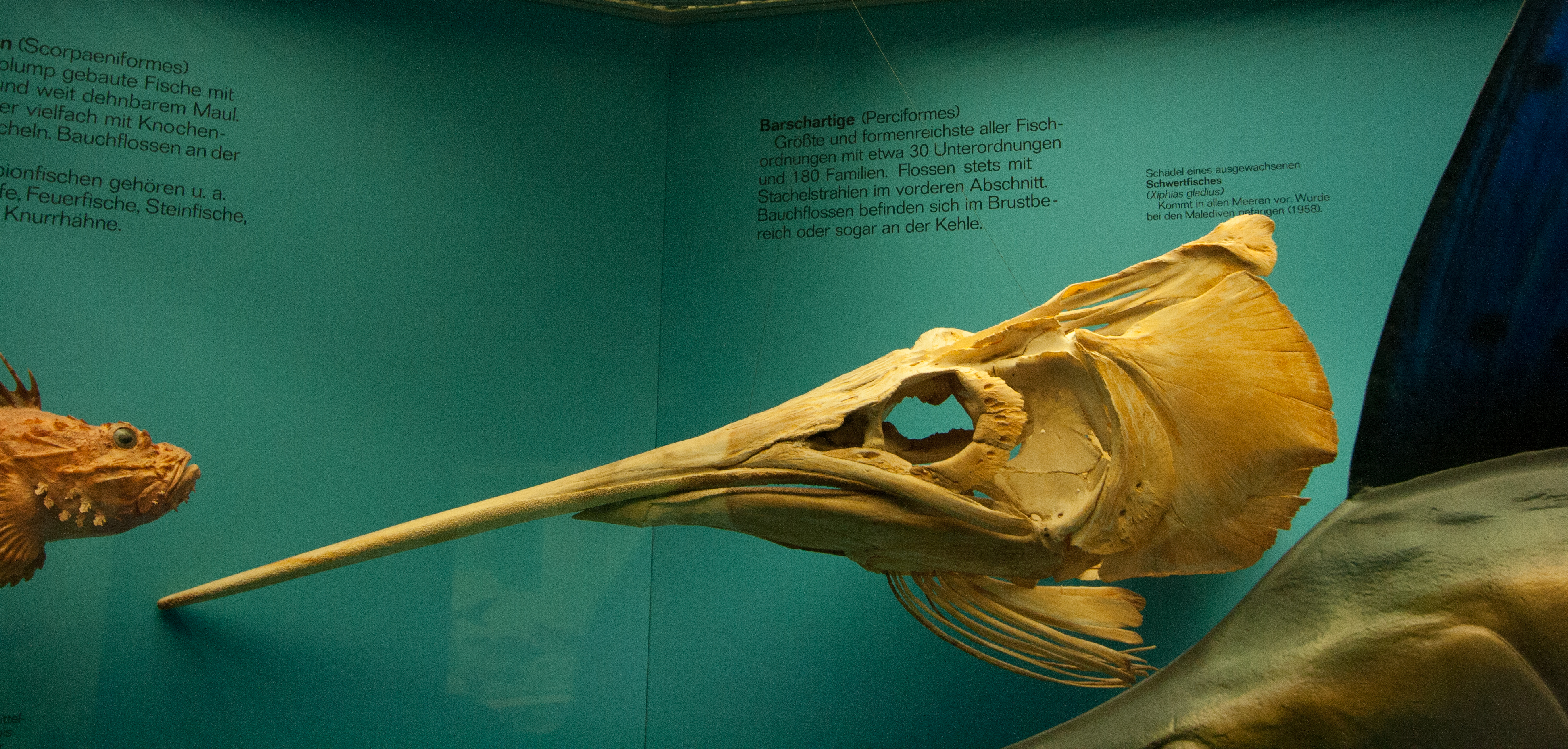 Head of a Xiphias glaudiuslabel QS:Len,"Head of a Xiphias glaudius"label QS:Lhu,"Kardhal feje"